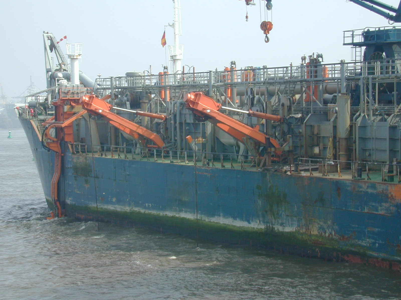 Dredge "Geopotes 14" entering Hamburg Harbour beginning its exertion. View on the bow with the dredging facilities.